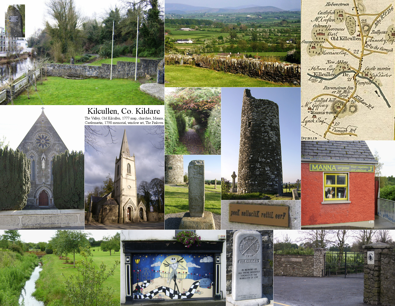 Postcard of Kilcullen (officially Kilcullen Bridge), Co. Kildare, Ireland, with images of The Valley Community Park and R. Liffey, a view from Old Kilcullen, the relevant part of Ireland's first set of road maps, one each of the local Roman Catholic and Church of Ireland churches, a remnant of a High Cross, and the ruins of the Round Tower at Old Kilcullen, the Pinkeen Stream, the 1798 memorial near the town bridge, the gates of Castlemartin Stud, and other local scenes.